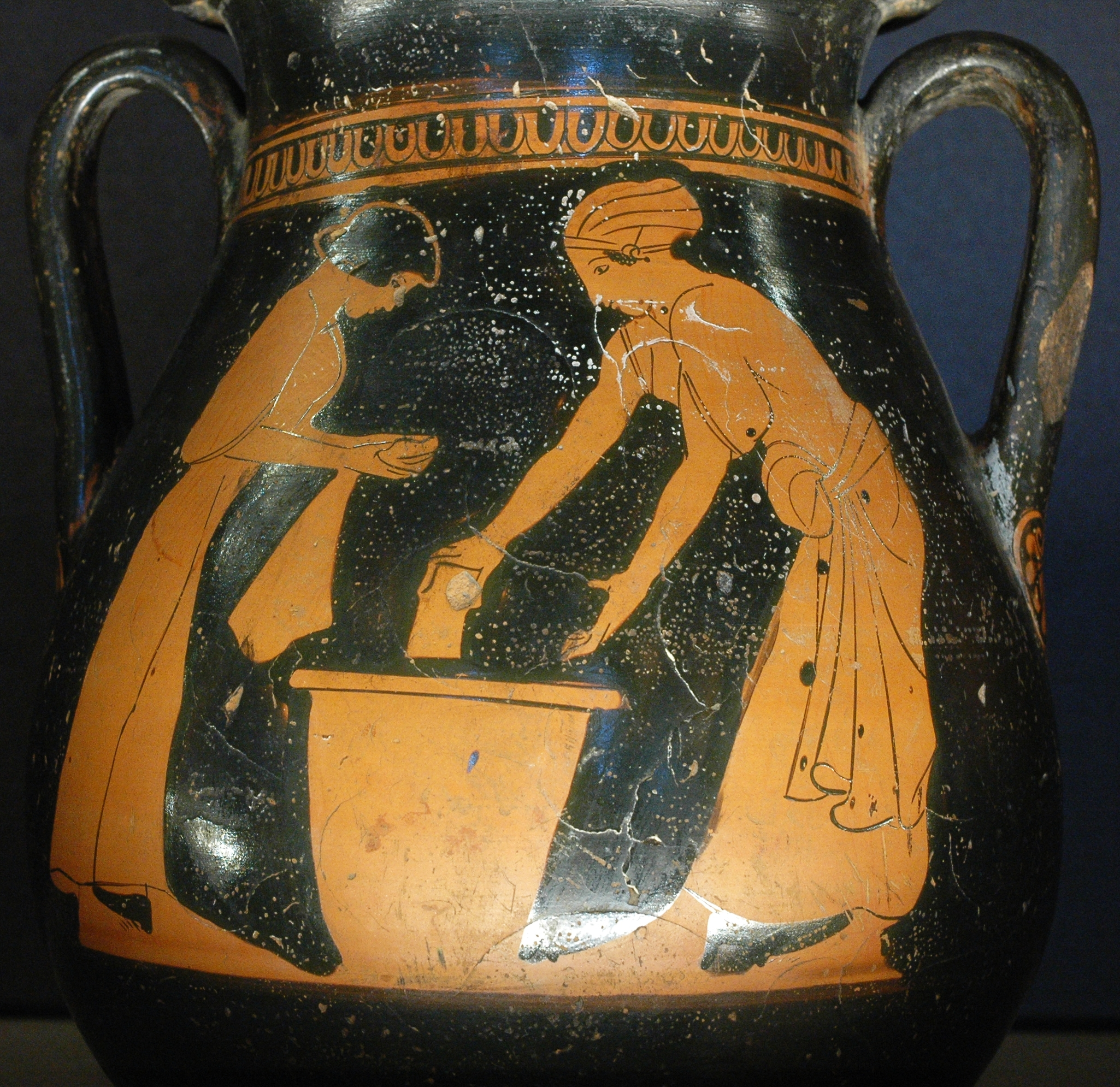 Women washing clothes. Side A from an Attic red-figure pelike, ca. 470 BC–460 BC.